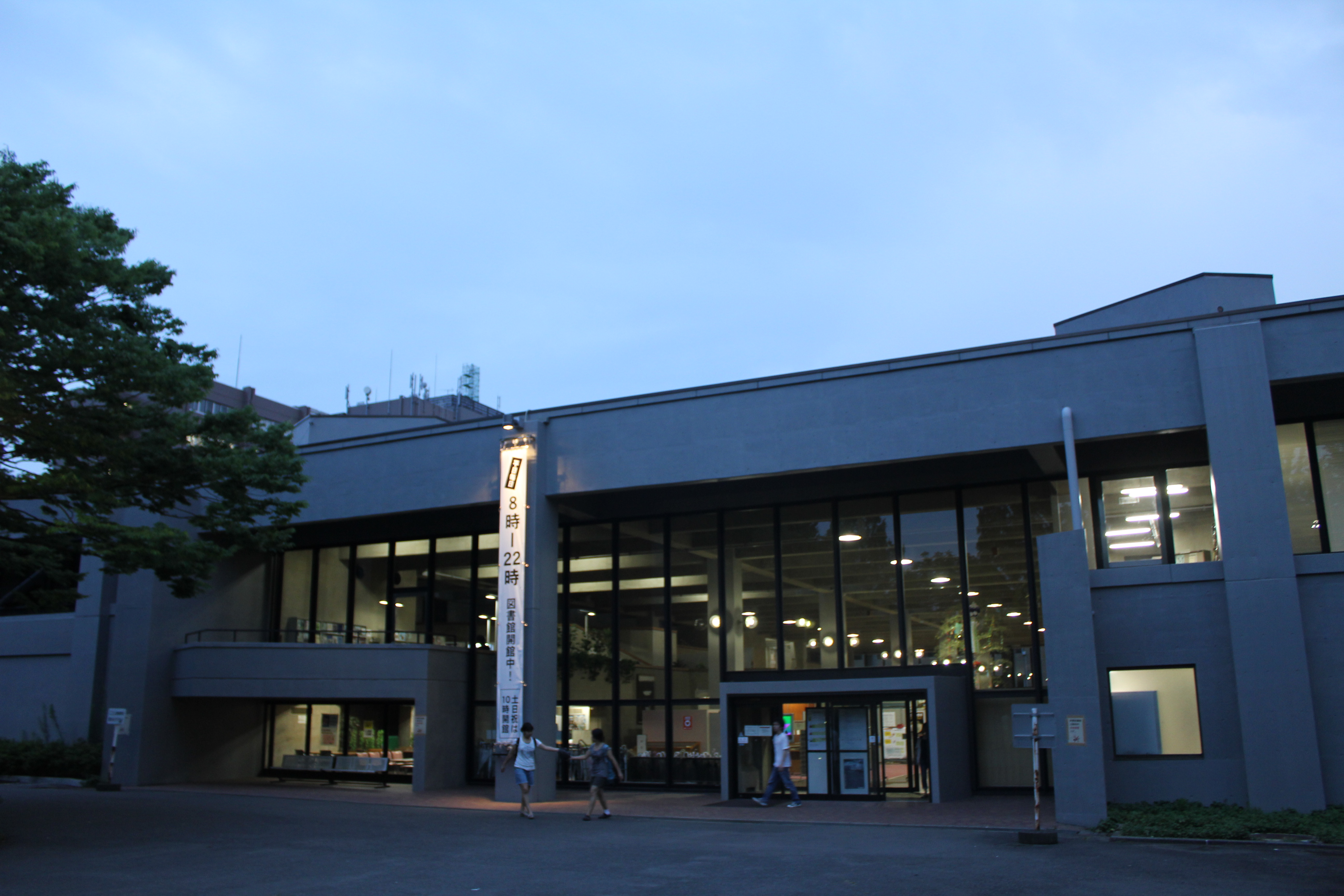 Central Library, Tohoku university, Sendai, Japan